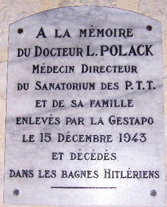 Commemorative tablet in memory of Doctor Polack in entrance hall of the hospital "La Roseraie" Montfaucon in Lot, France. Dr Lazare Polack was arrested on 15 december 1943 and killed in Auschwitz concentration camp.